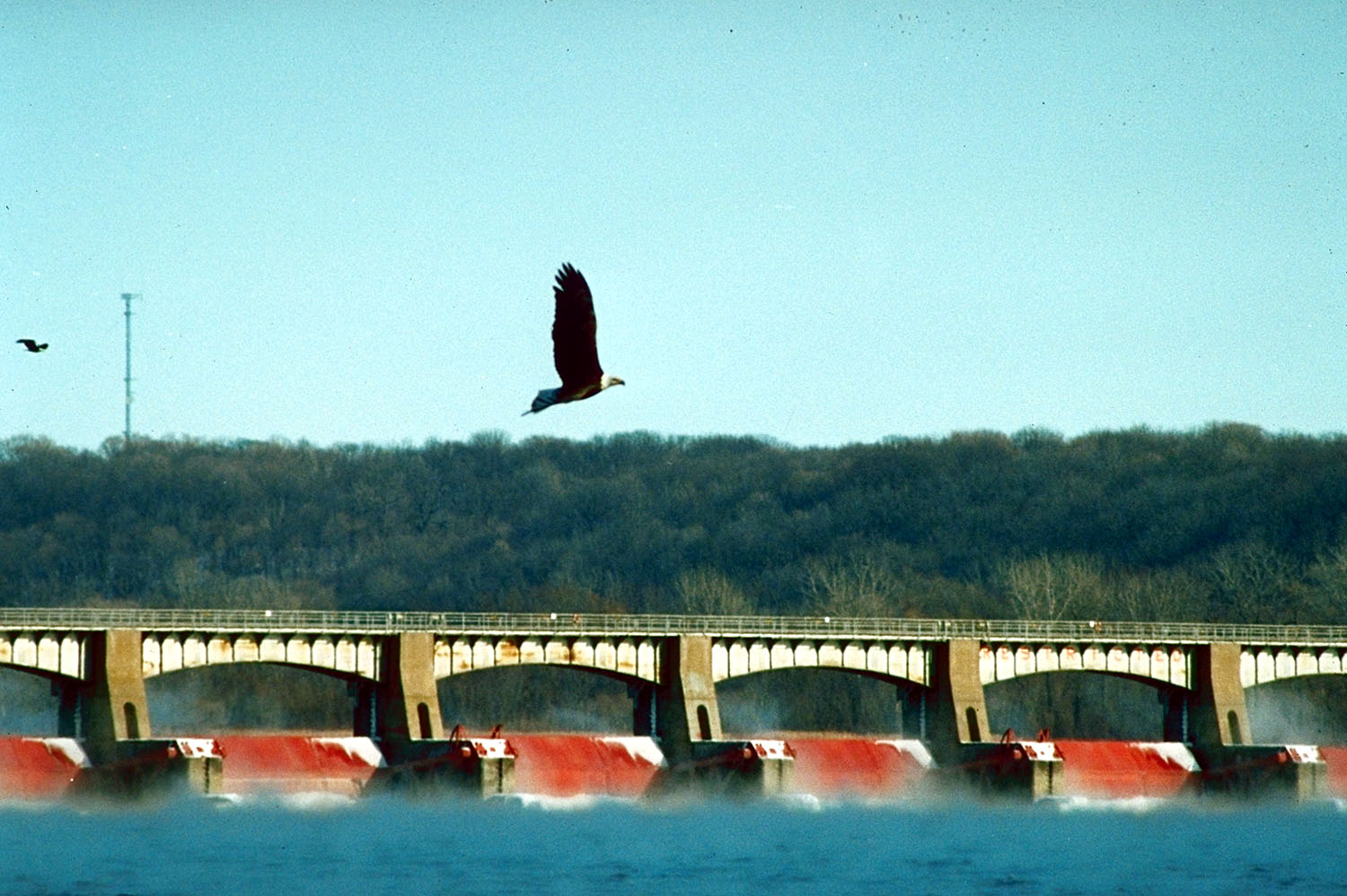 Lock and Dam 14 located on the Mississippi River, Le Claire, Iowa, USA. During the winter season the Lock and Dam area is home to many bald eagles.